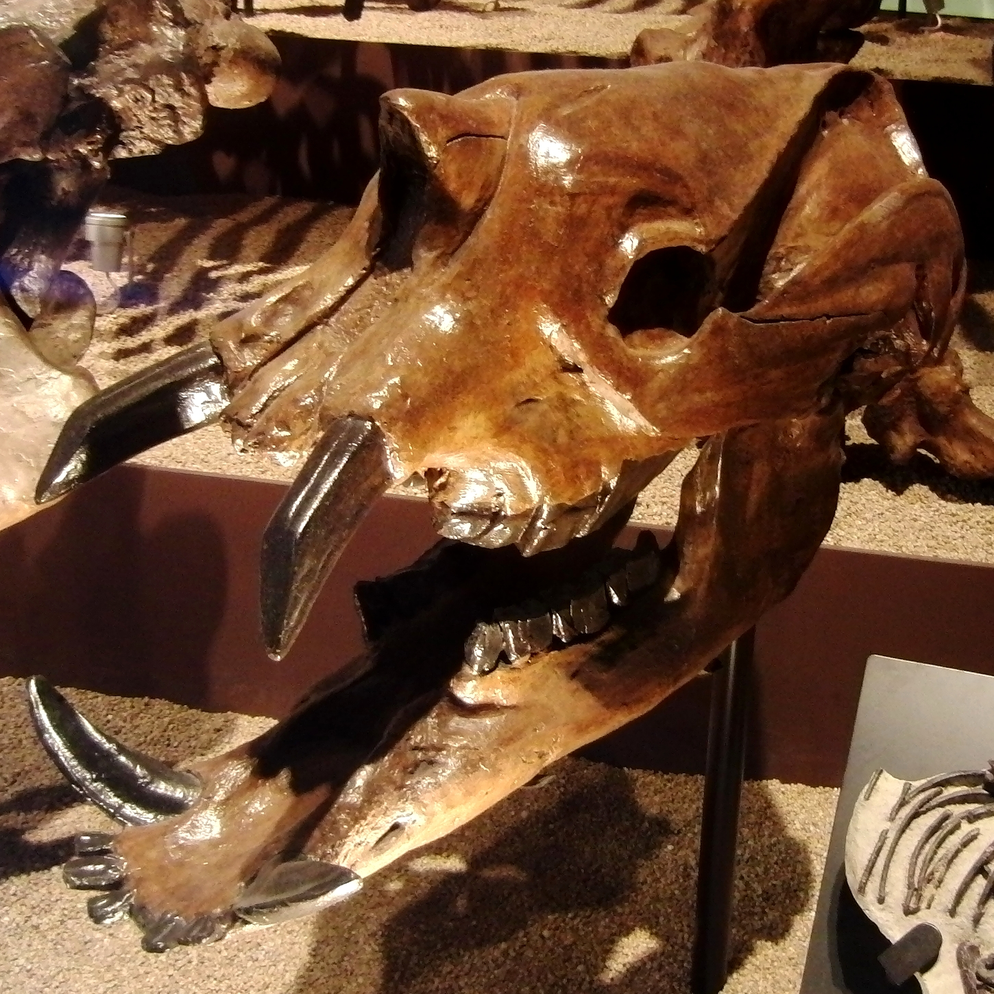 Skull of Astrapotherium magnum. Exhibit in the National Museum of Nature and Science, Tokyo, Japan.